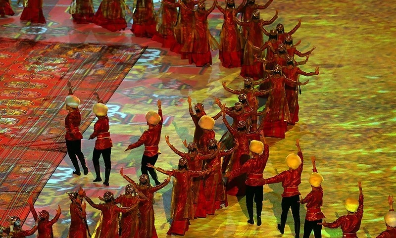 2017 Asian Indoor and Martial Arts Games